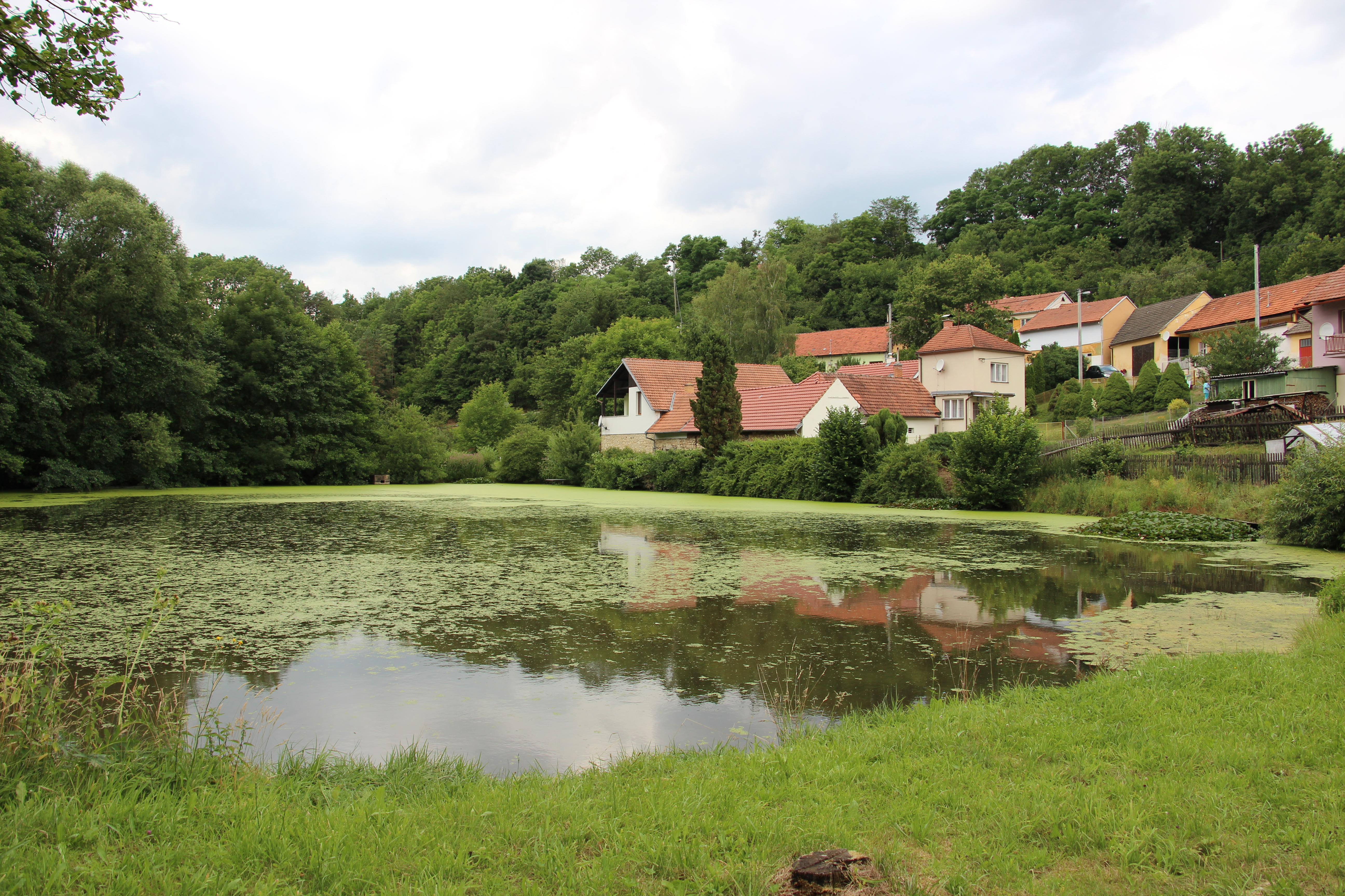 Slatinka, part of Letovice, Blansko District, Czech Republic